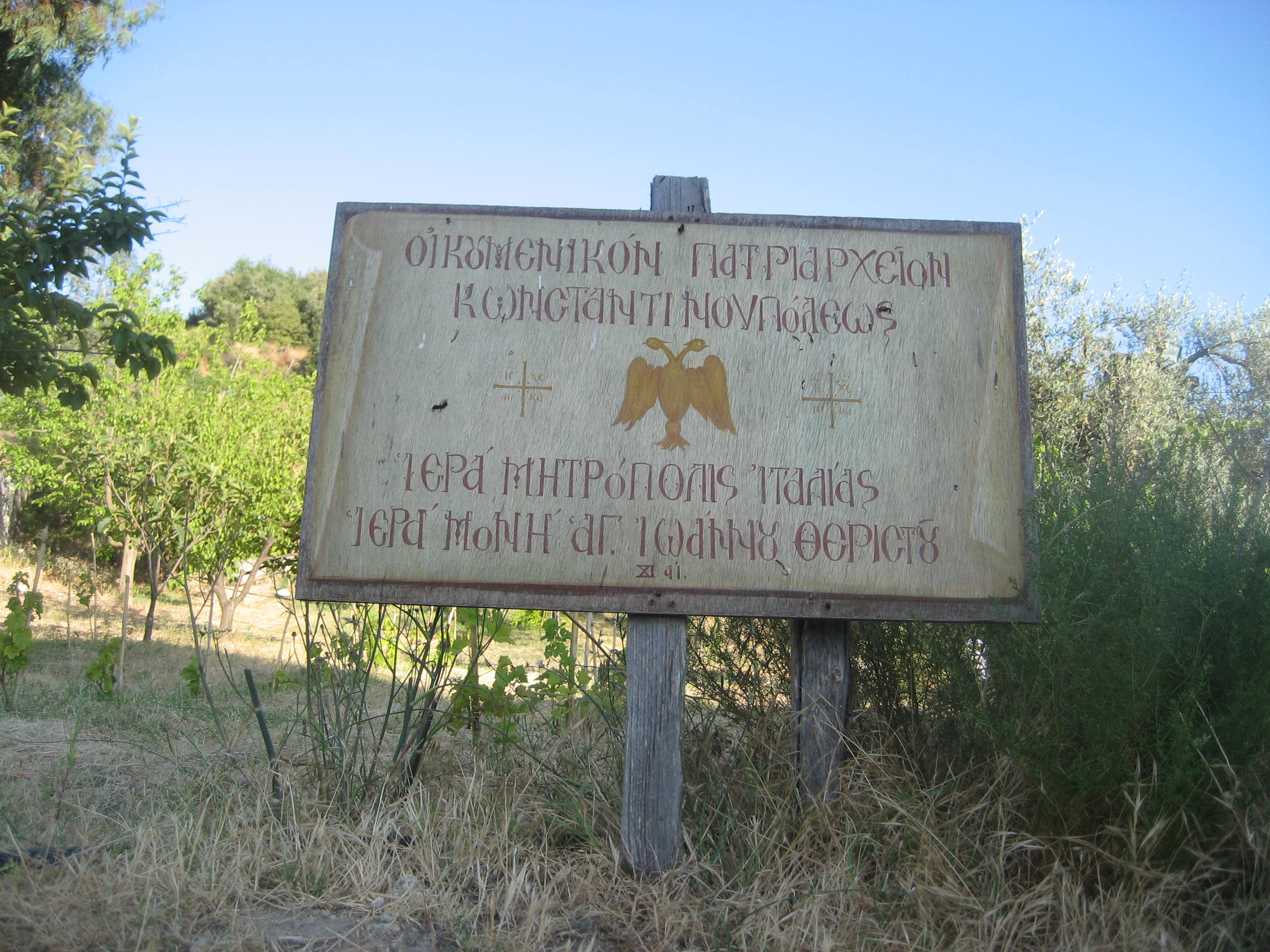 Insegna_Therestis